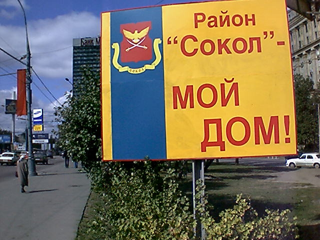 Sokol district in Moscow